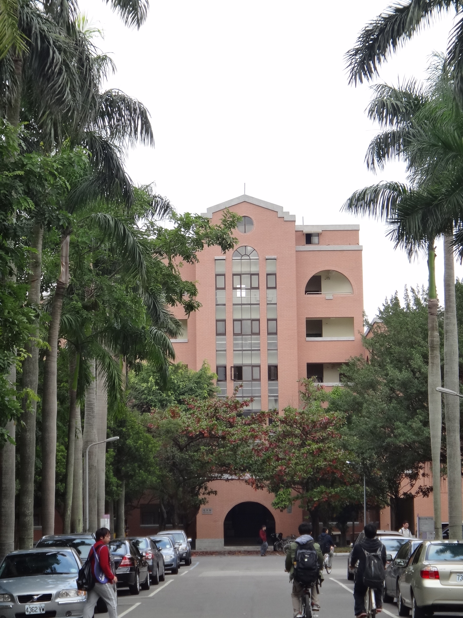 named after professor Chien Shih-Liang中文（台灣）: 思亮館（小椰林道拍攝）